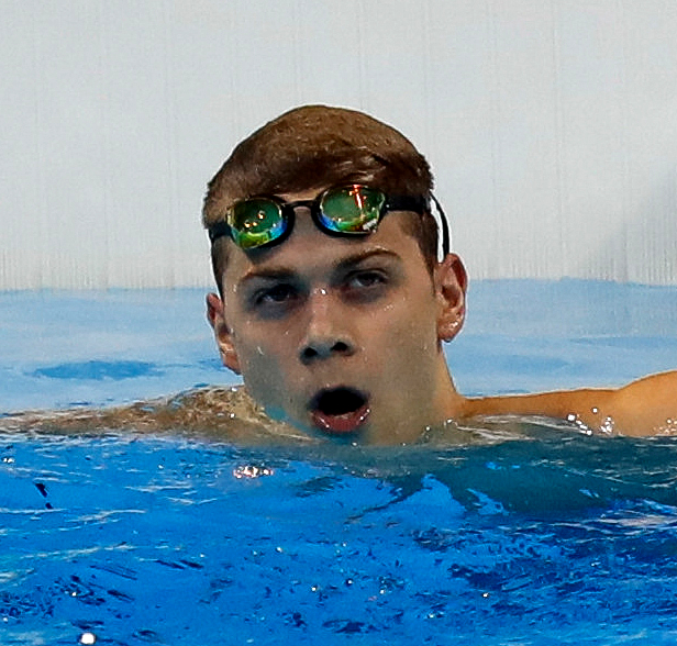 Rio de Janeiro - Tamás Kenderesi, dos Estados Unidos, ganha sua 20ª medalha de ouro olímpica, nos 200m nado borboleta, nos Jogos Rio 2016. (Fernando Frazão/Agência Brasil)